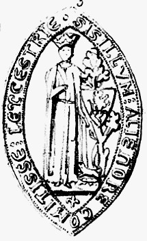 Eleanor of England